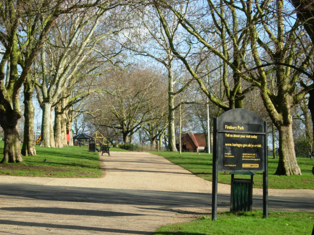 Finsbury Park Seen here near to the Oxford Road gate. Finsbury Park was opened by the Metropolitan Board of Works in August 1869, replacing Finsbury Fields as a facility for the people of Finsbury (hence the name). It is now run by Haringey Council.